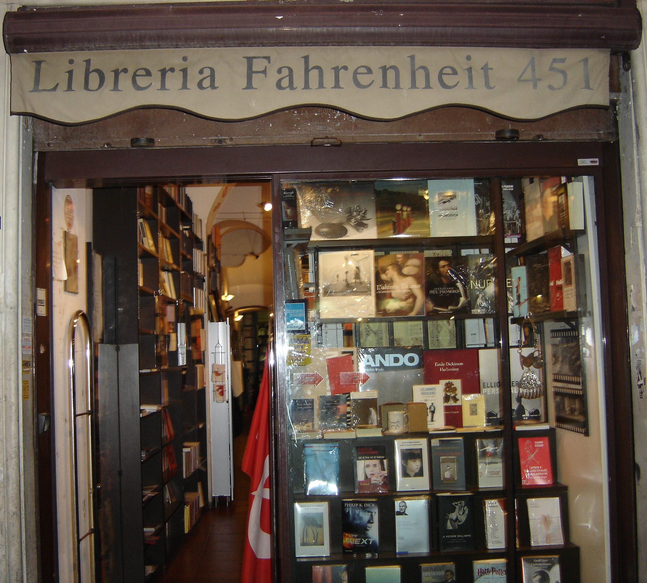 Front of 'Libreria Fahrenheit 451' bookstore, Campo de’ Fiori, 44, Rome, Italy.